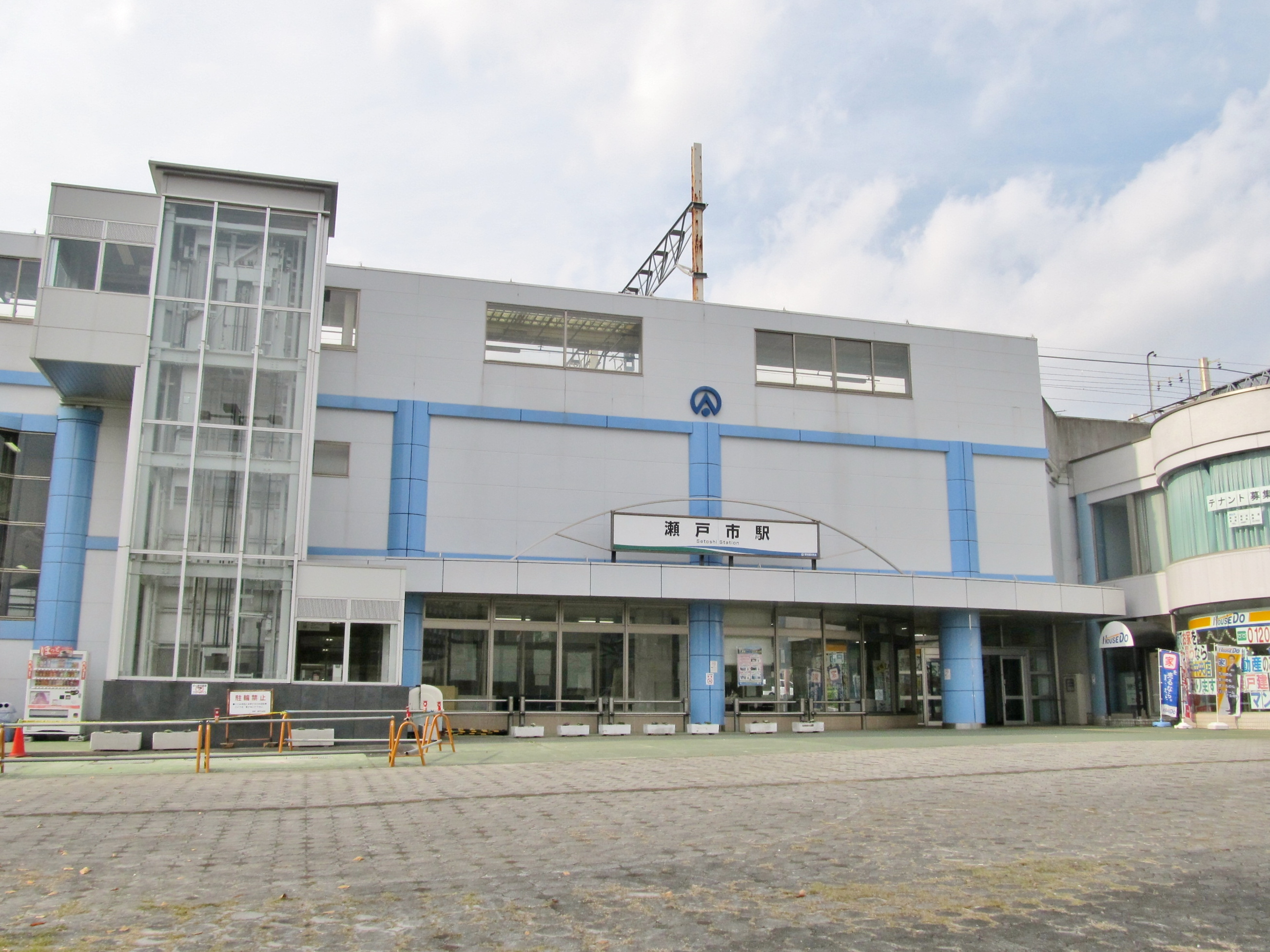 Aichi Loop Line Setoshi Station East Gate